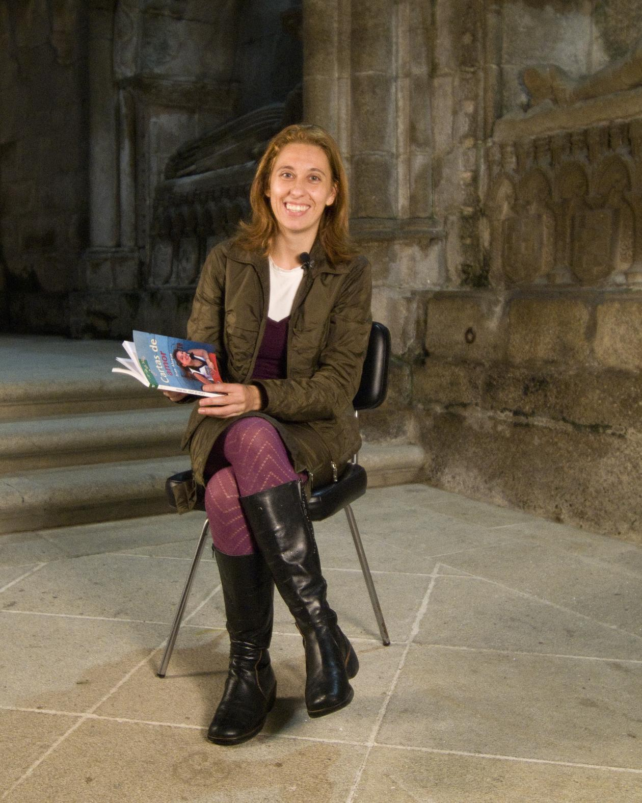 Photograph of Rosa Aneiros